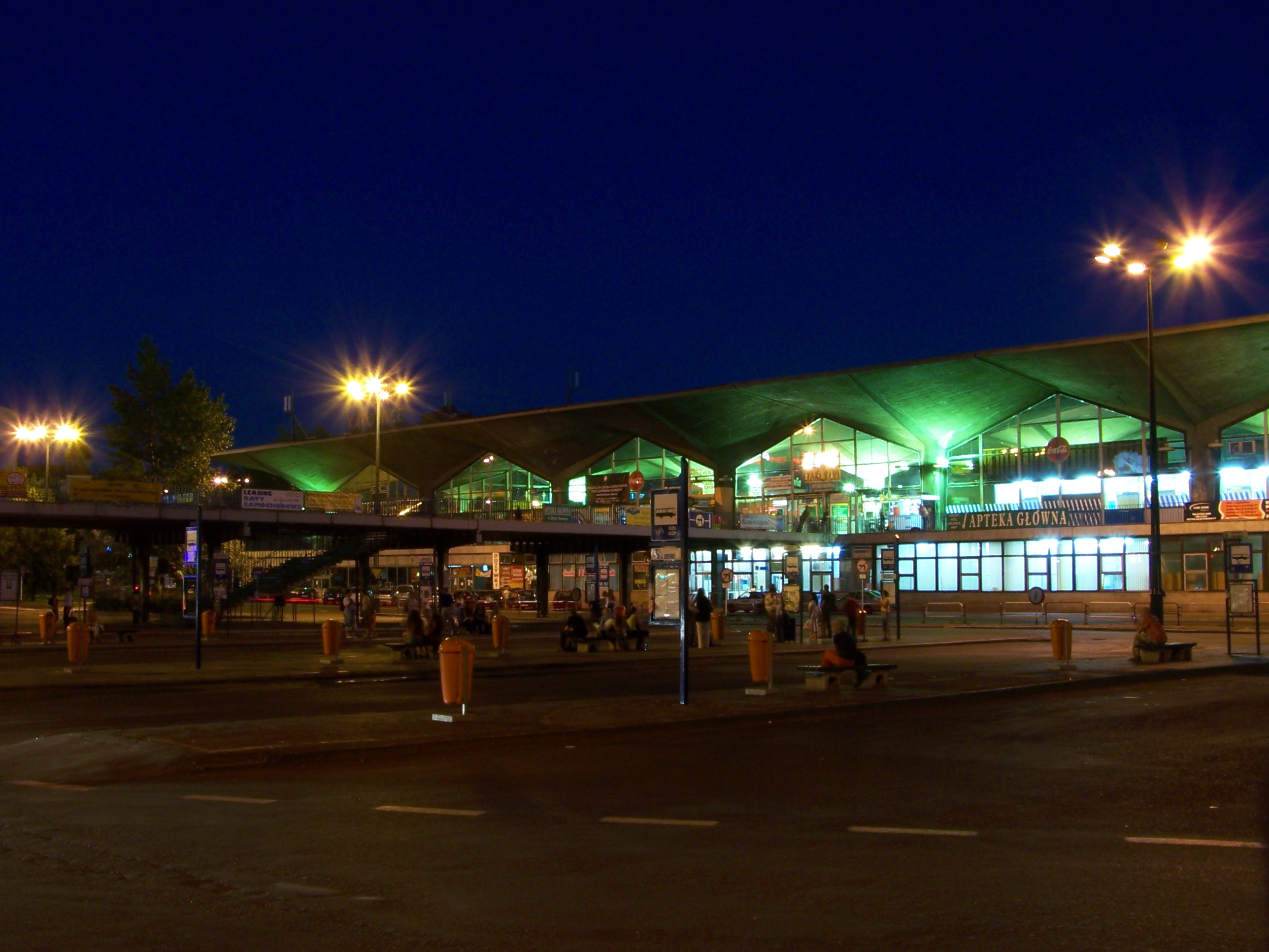 Train station in Katowice (Poland).